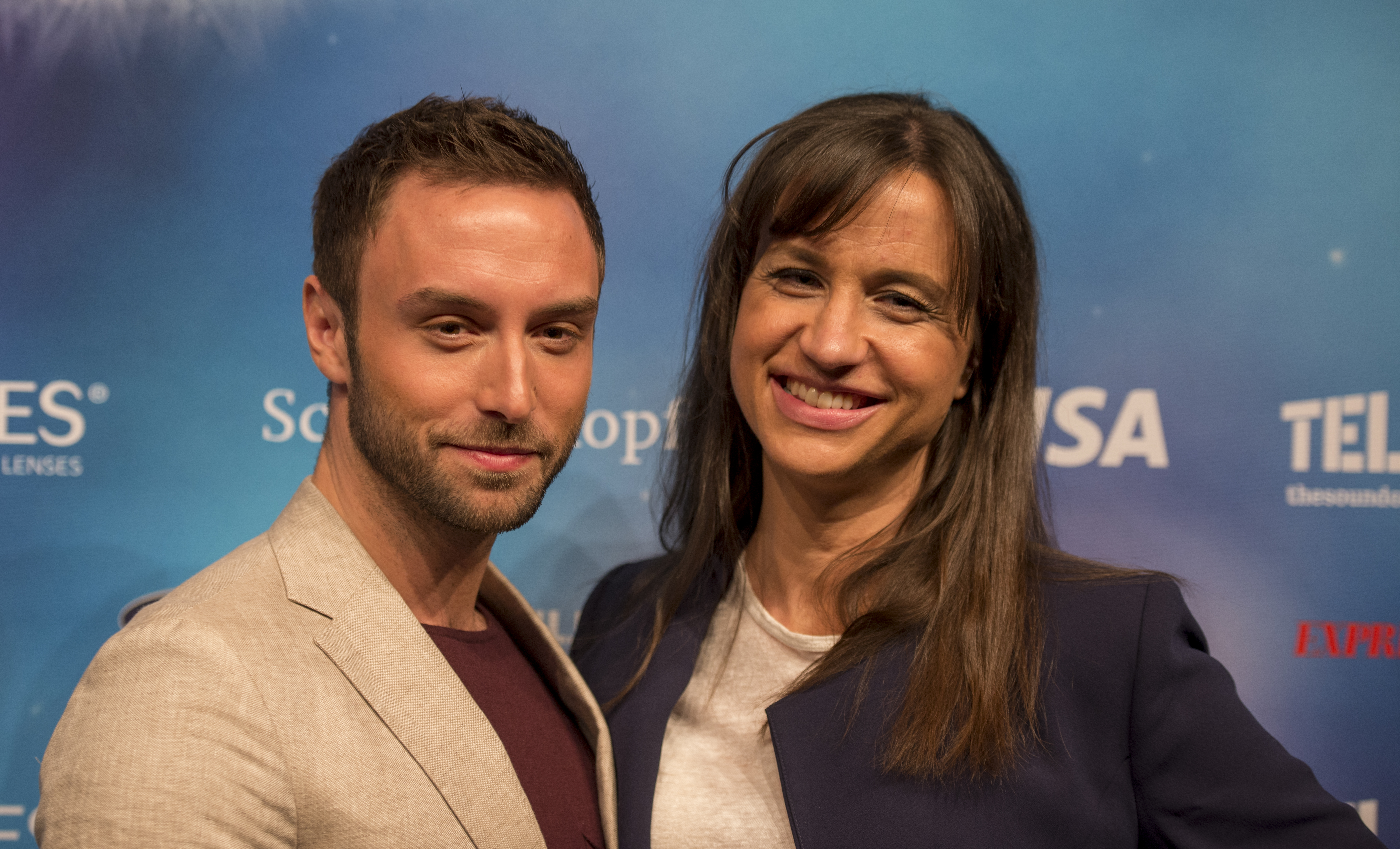 Måns Zelmerlöw & Petra Mede at a press conference during the Eurovision Song Contest 2016 in Stockholm. (Help translate this text)